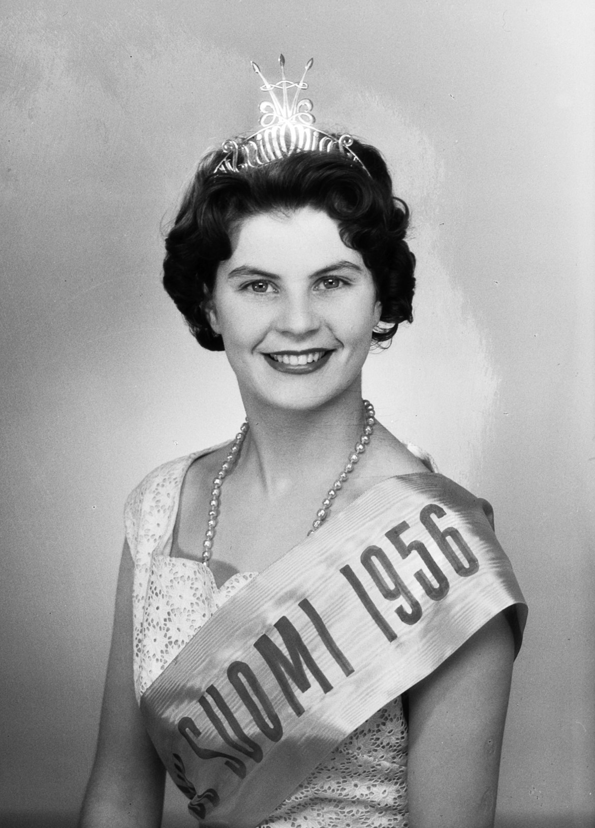 Sirpa Koivu in 1956.